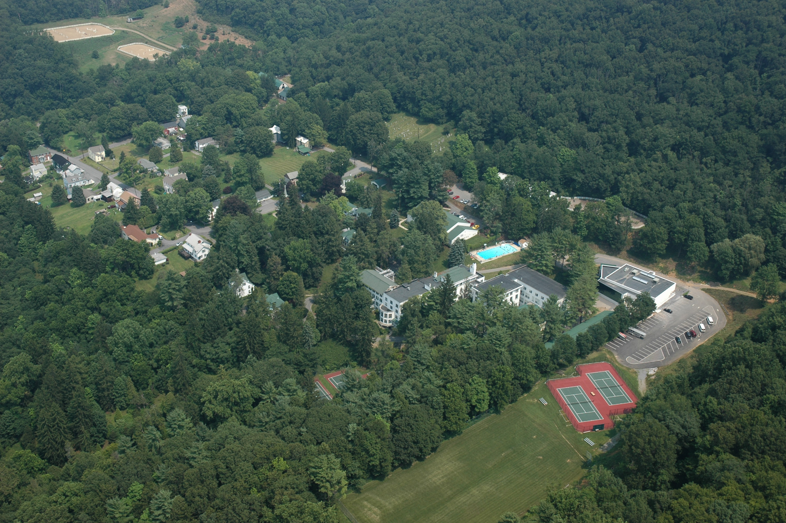 This is an aerial view of Grier School in Birmingham, PA.